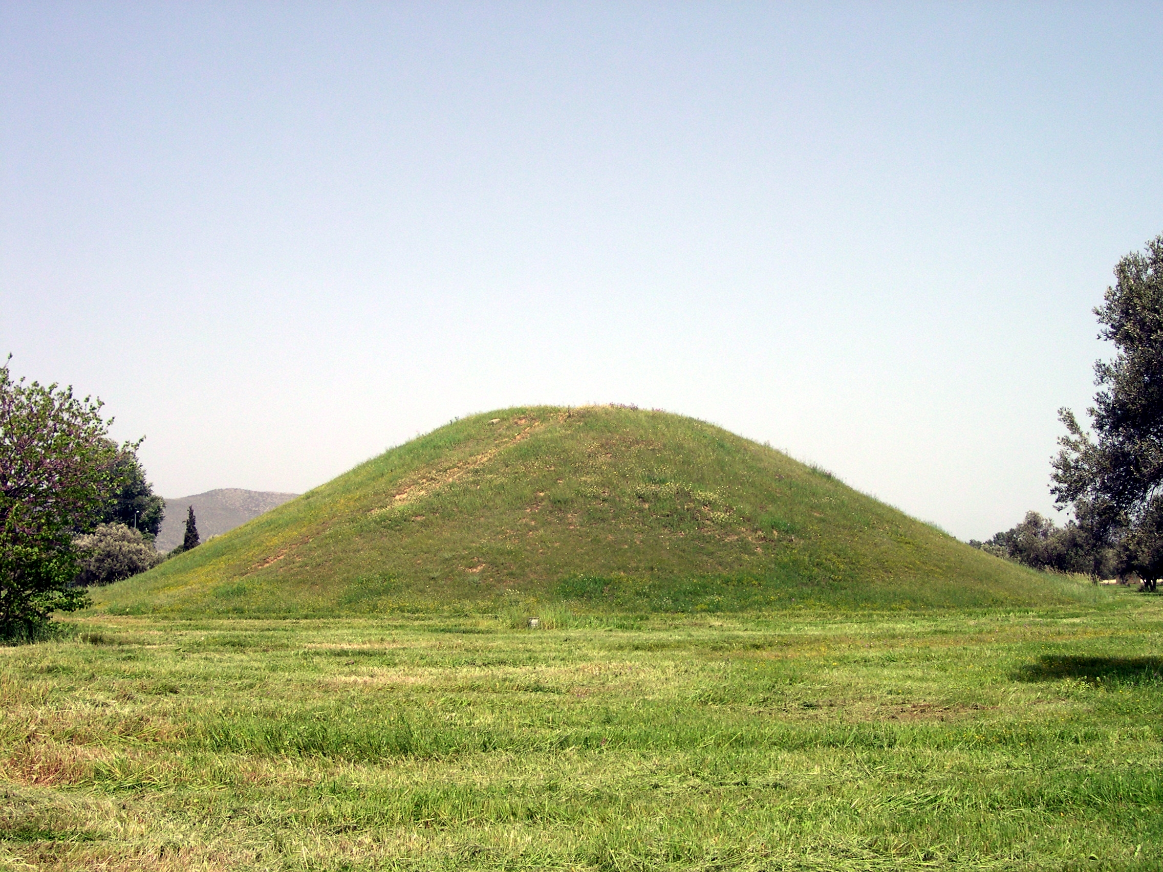 Funeral tumulus of the Athenians in Marathon battle (Greece).